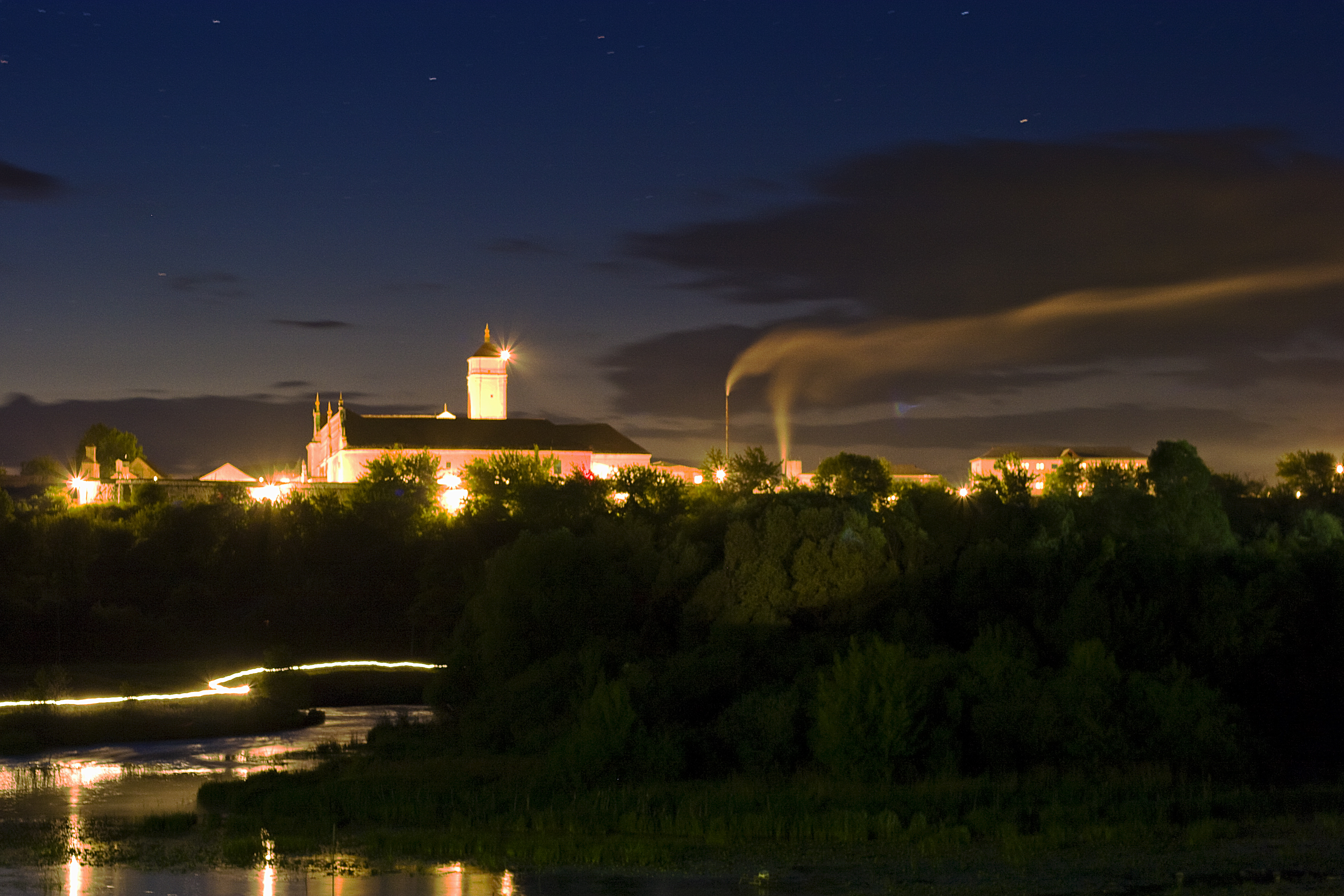 Bernardine Monastery in Iziaslav, Ukraine.